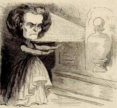 Caricature of Adelaide Borghi-Mamo as Méluzine the sorceress in Fromental Halévy's opera La magicienne